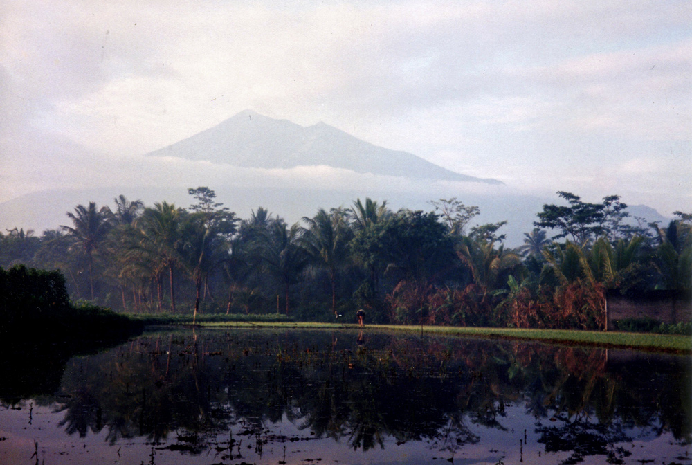 Mount Merbabu viewed from Salatiga, Central Java, Indonesia. Photo by Merbabu, Jan 1998.